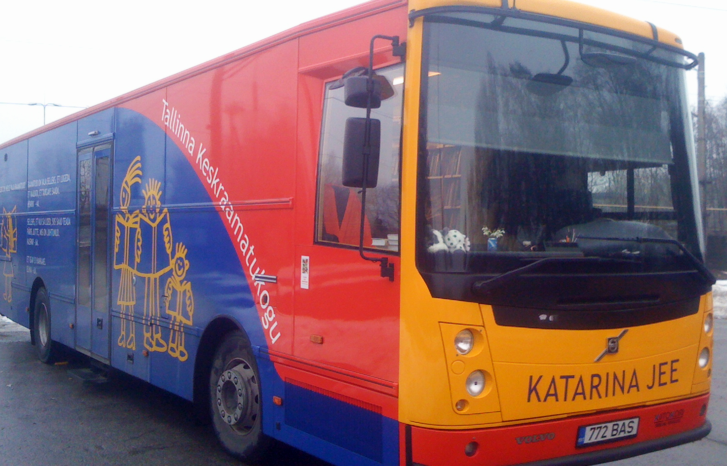 Library bus "Katariina Jee" in Tallinn, Estonia.